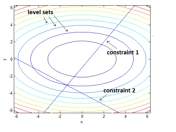 Graph showing level sets of a paraboloid and two line constraints.